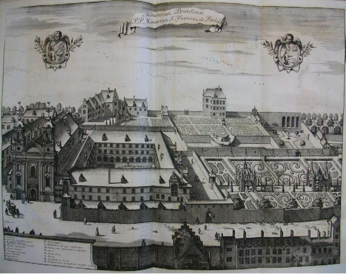 Engraving of the Brussels Minim convent and (post 1700) church, from Sanderus 1727. In the left upper background the house of Vesalius or old convent. In the right middle ground the chapel and hermitage of Our Lady of Loreto